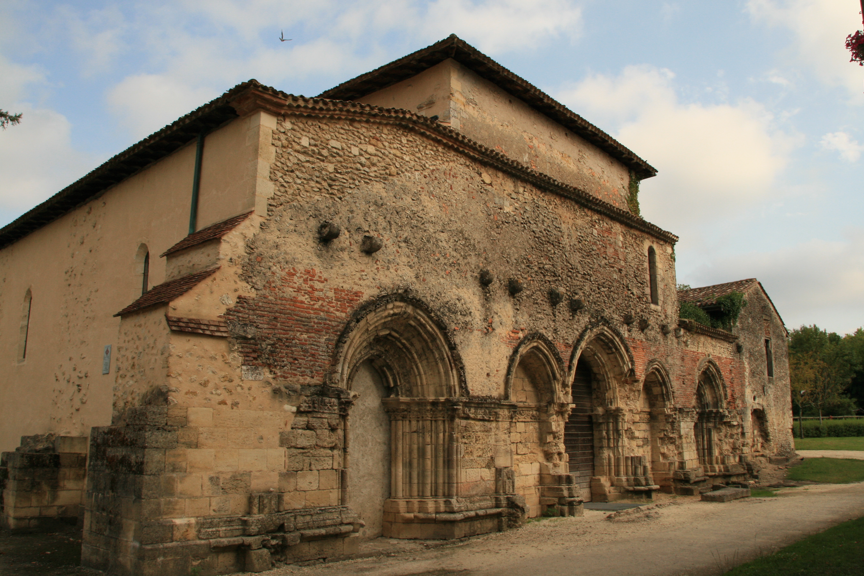 Prieuré de Cayac. Details of the church. Gothic arches.